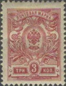 The eighteenth standard issue. Russian Imperial Eagle and Posthorns with Thunderbolts. 3k red